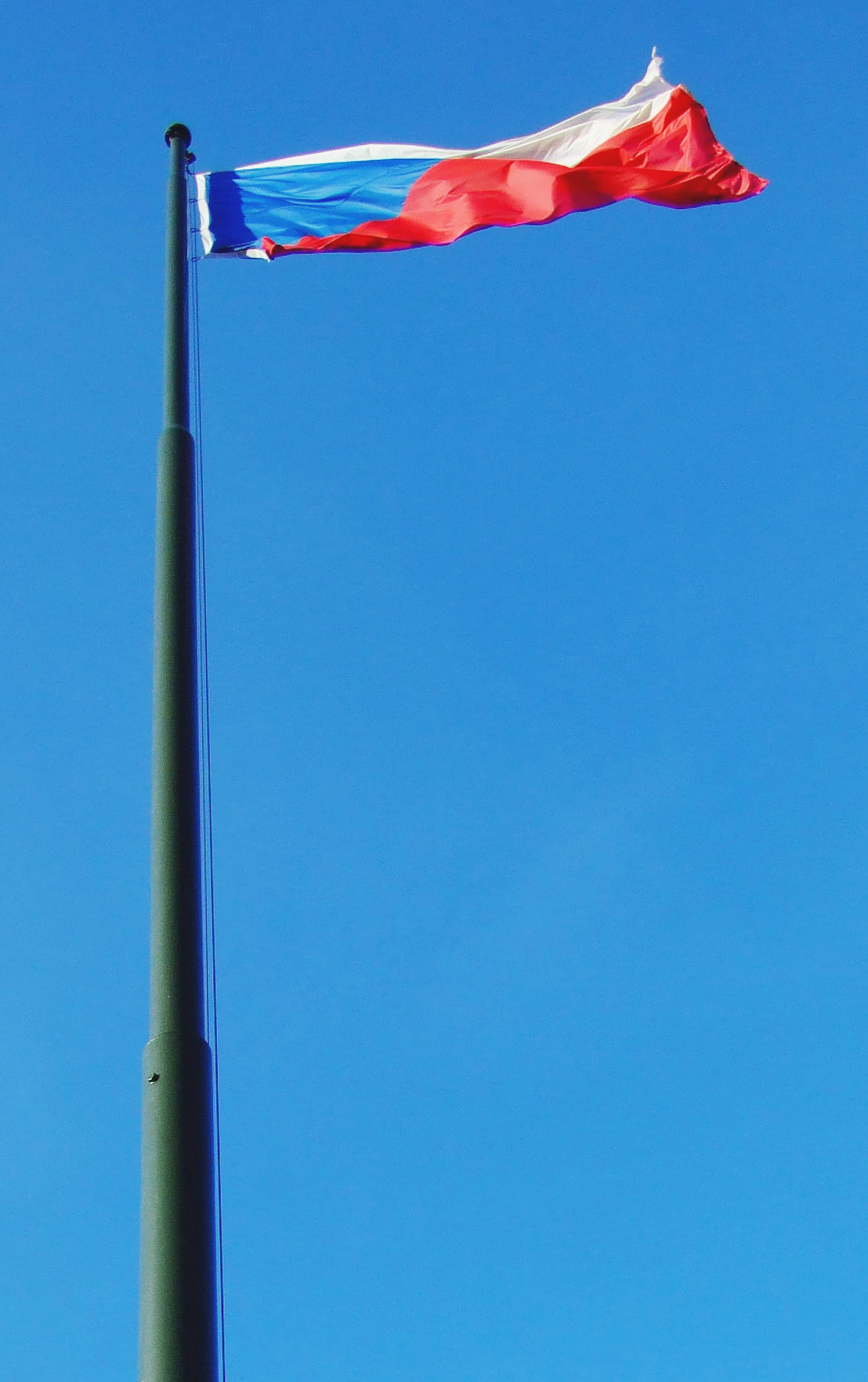 Flag of the Czech Republic in Prague-Vítkov hill, Prague, CZhelp